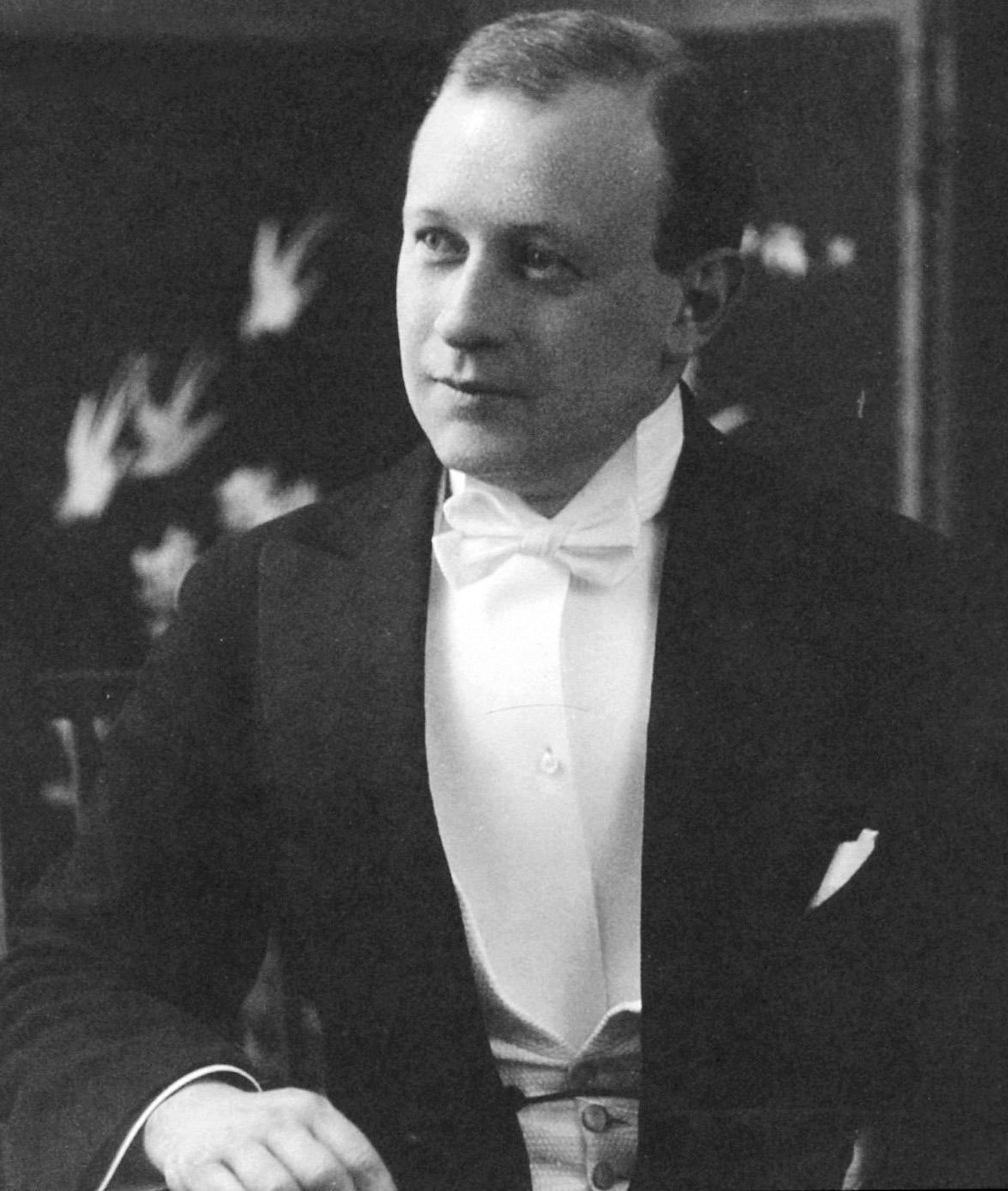 Photograph of the Finnish musician Theodor Weissman (1891–1966).